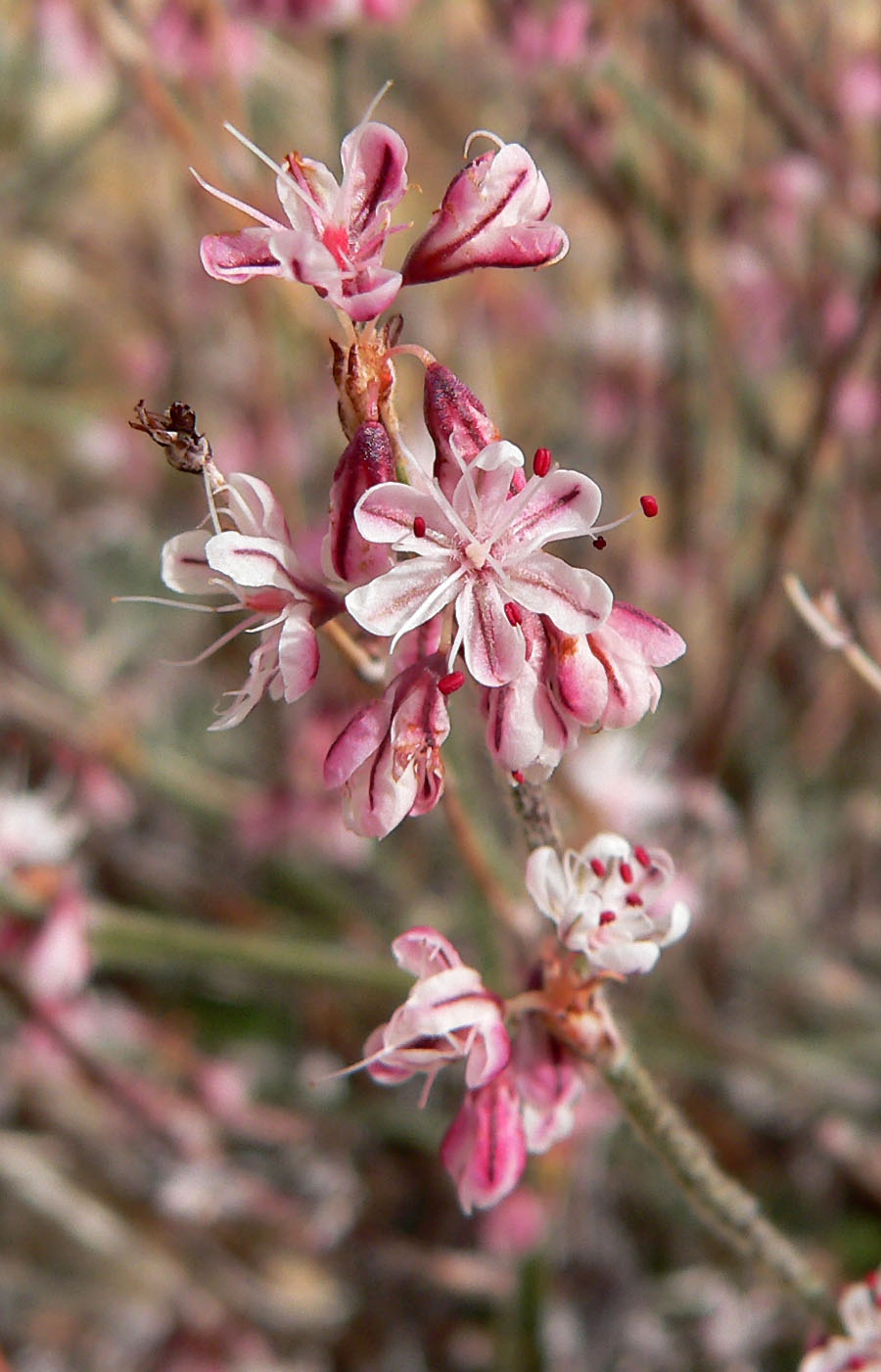 Eriogonum wrightii var. wrightii near the summit of Mount Wilson, Red Rock Canyon, southern Nevada (elev. about 2100m)